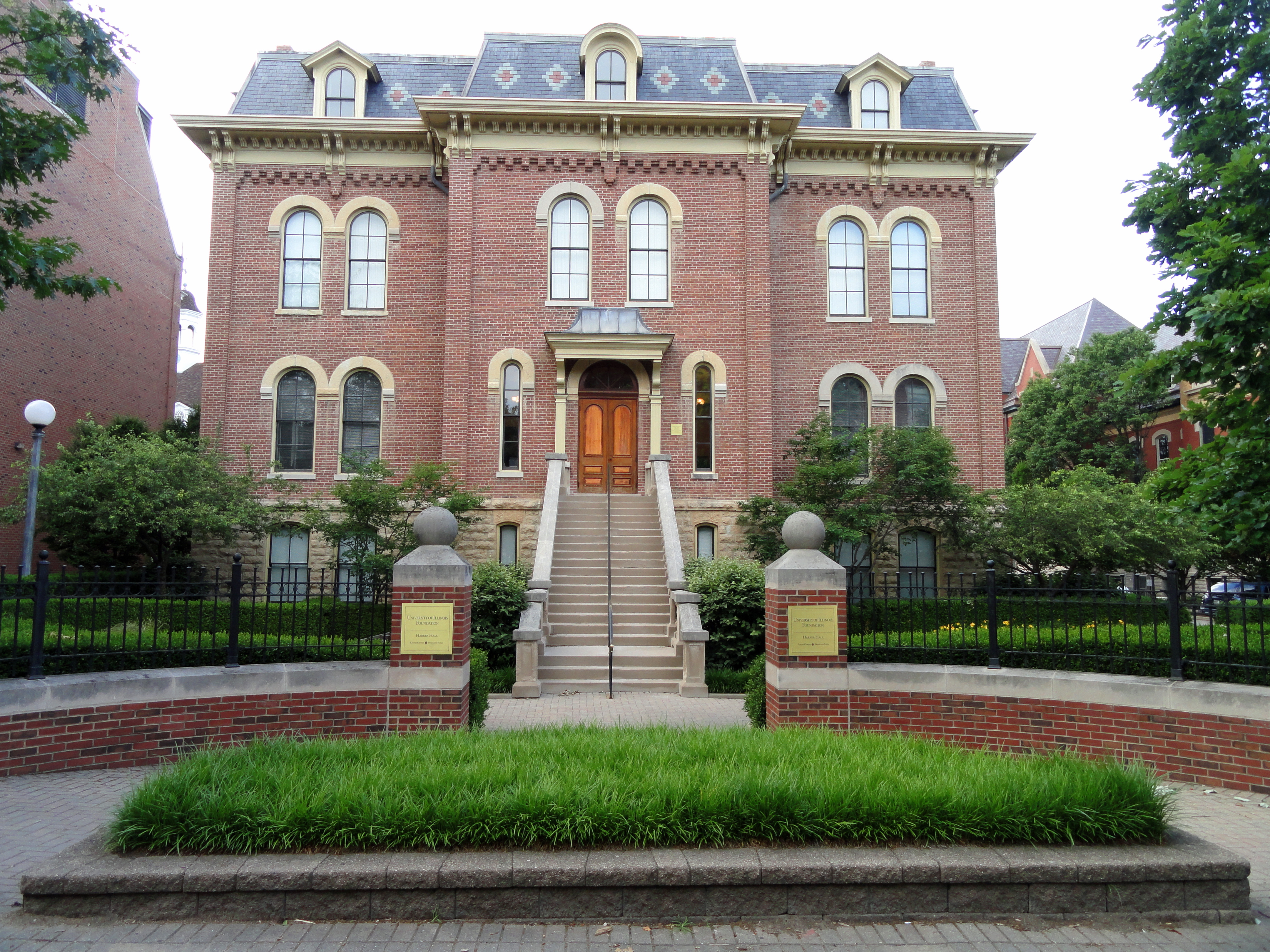 Building on the campus of the University of Illinois at Urbana-Champaign (UIUC), Urbana-Champaign, Illinois, USA.